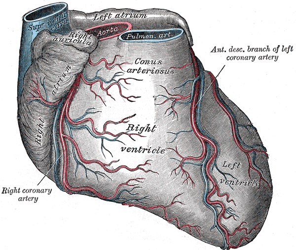 coronary sulcus or human heart skeleton